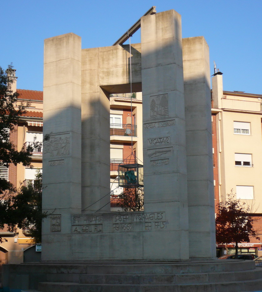 Monument to Josep Moragues, by Domènec Fita in Sant Hilari Sacalm (La Selva, Catalonia)